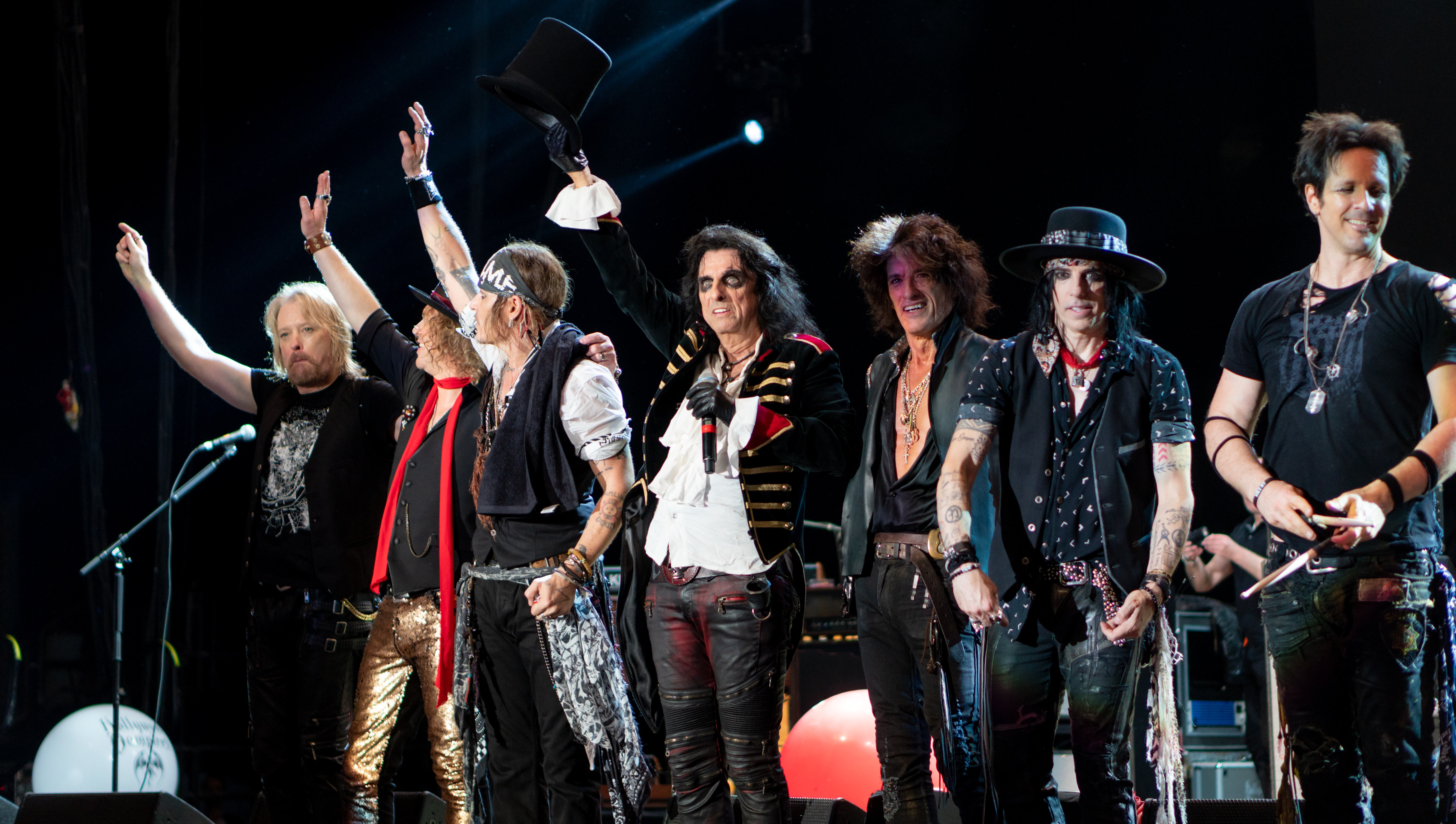 HollywoodVampsSSe200618-157